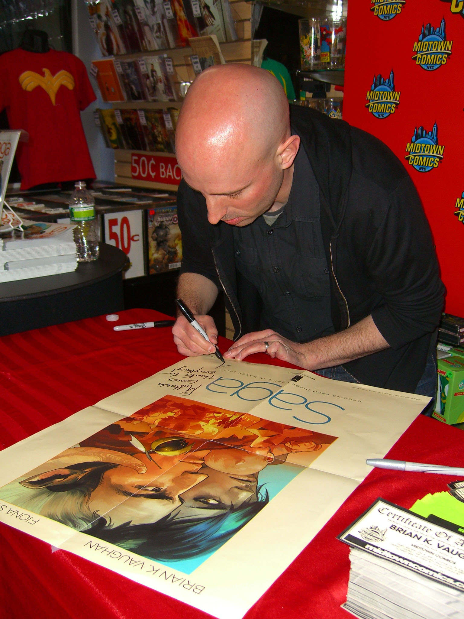 Comics and television writer Brian K. Vaughan at a March 15, 2012 signing for Saga #1 at Midtown Comics Downtown in Manhattan. In the photo Vaughan is signing a Saga poster to Midtown Comics. This photo was created by Luigi Novi. It is not in the public domain, and use of this file outside of the licensing terms is a copyright violation.